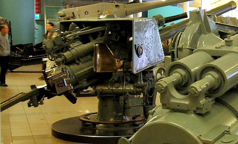 Photograph showing British QF 4-inch Mk IV naval gun, at the Imperial War Museum, London. This is the gun from HMS Lance which fired the first British shot of World War I on 5 August, 1914. See also : File:QF 4 inch Mk IV gun IWM May 2009.jpg right-front view today File:QF 4 inch gun HMS Lance South Kensington 1926 IWM Q 45231.jpg this gun in 1926